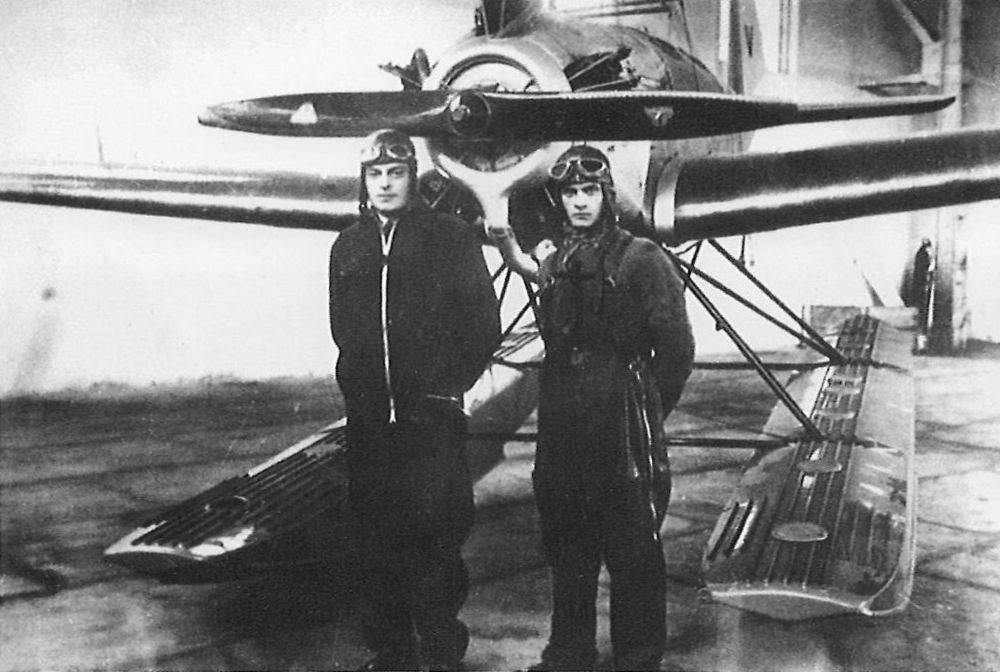 Mihail Pantazi and Gheorghe Grozea with their ICAR M23b seaplane, on which they set up the world endurance record on 1932